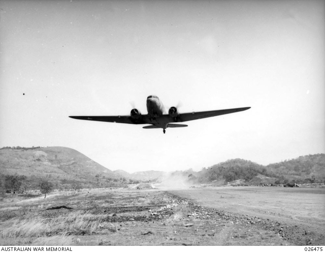 Papua, New Guinea. 1942-08. Douglas C53 Dakota transport aircraft of the 21st Troop Carrier Squadron taking off from Kila Airfield, near Port Moresby on a supply dropping mission to the Kokoda area.